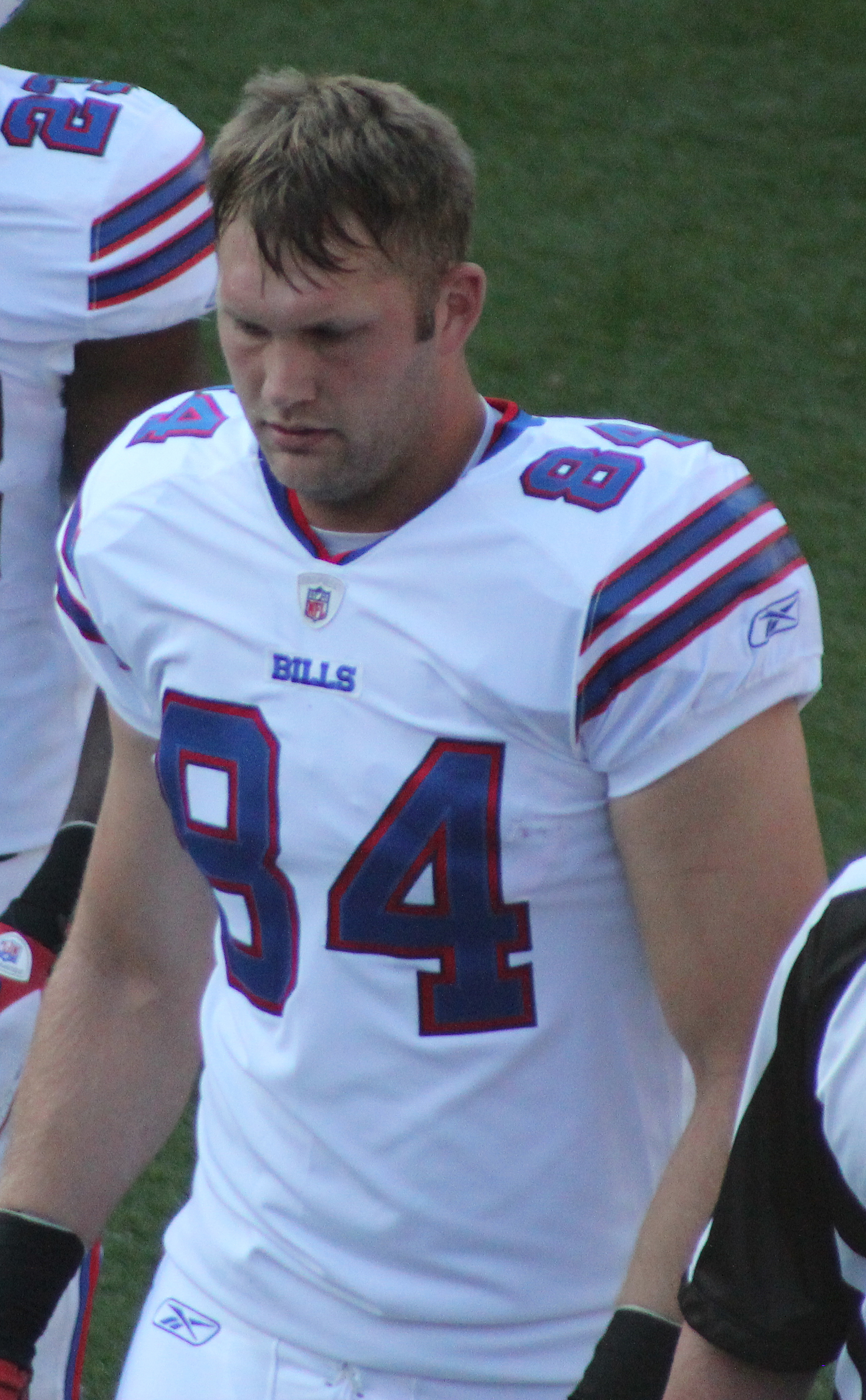 Scott Chandler, a National Football League player.